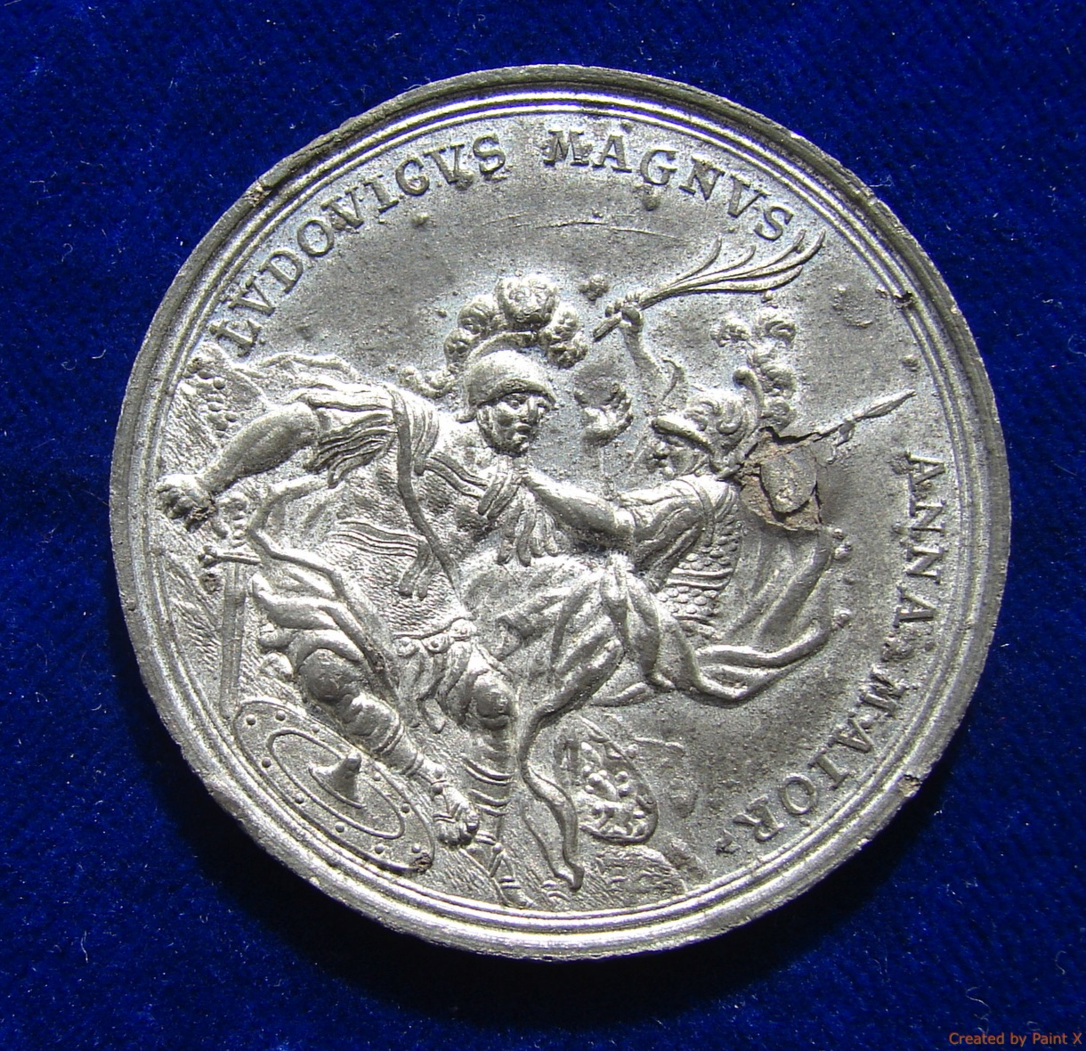 White metal medallion d. = 44 mm. Louis XIV, King of France 1643 - 1715 and Anna, Queen of Great Britain, 1702 - 1714. This medal commemorates the victory of the Duke of Marlborough over the French Marshal Duc de Villeroi. Minerva (Queen Anne) subdues a Roman warrior (Louis XIV). Curved above: "LUDOVICVS MAGNVS ANNA MAIOR"/ Victory walking l. At r. 4 lines on a shield: "CLADES GALLOR IN BRAB 23 MAI". 4 l. in exergue: XII· VRBES CVM PROVINCIIS INTRA XV D: RECEPTÆ· 1706". All surrounded by 12 shields inscribed: "BRVSELLA MECHLINIA LIERA ANTVERPIA FVRNA ALOSTVM ATHVM ALDENARDA BRVGÆ GANDAVIVM DAMIVM LOVANIVM" for 12 cities Brussels, Mechelen, Lier, Antwerp, Furnes (Veurne), Aalst, Ath, Oudenarde (Oudenaarde), Bruges (Brugge), Ghent (Gent), Damme, Leuven (Louvain), succumbed to the British allies in the aftermath of the Battle of Ramillies. Edge lettering: "DOMINVS TRADIDIT EVM IN MANVS FŒMINÆ IVDITH · C ·". Eimer 421. Medallist: (Philipp Heinrich Müller), 1654 Augsburg - 1719 Augsburg, Germany. Condition: Good VERY FINE+ with much lustre left.